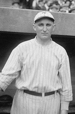 New York Yankees pitcher Carl Mays in 1920